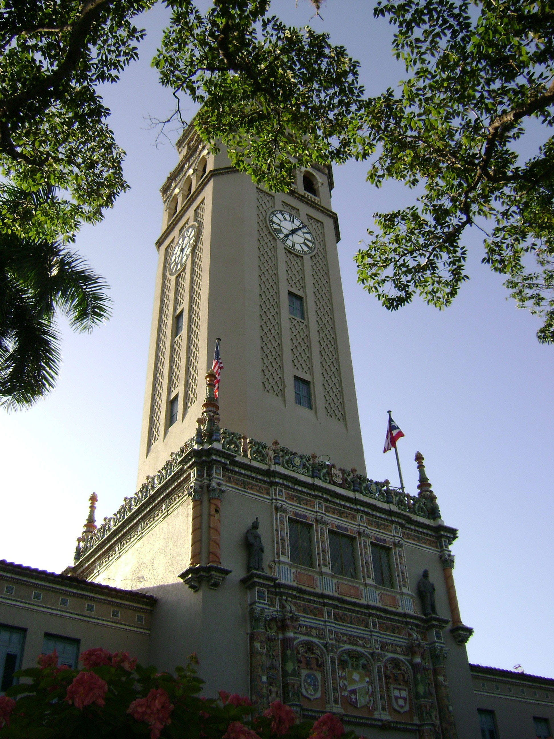 Tower in the main and oldest building in the Río Piedras campus of University of Puerto Rico. Designed and built between 1930-1940 by Puerto Rican architect Rafael Carmoega. Self-taken picture, April 30, 2008.